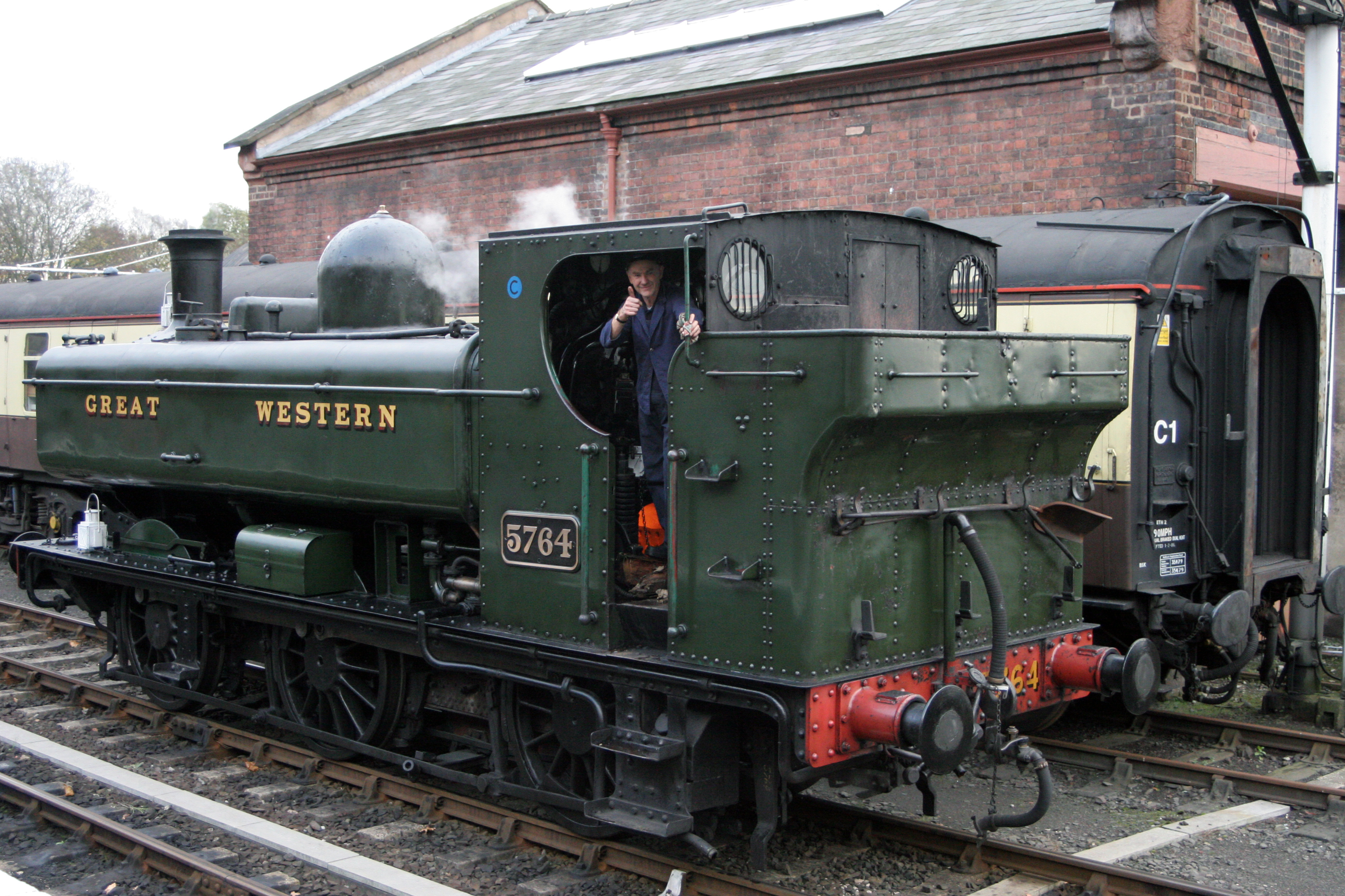 Preserved GWR 57xx 5764 at Bewdley station. Driver giving thumbs up to cameraman. Taken 10th November 2007 by Simon Emms.